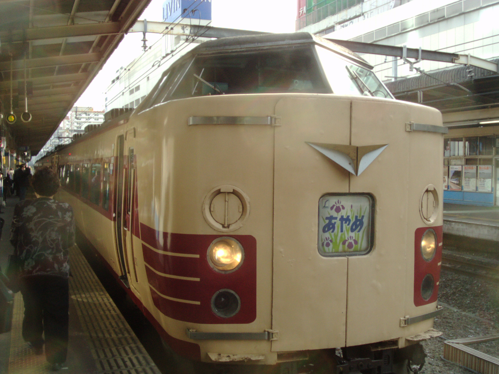 A JR East 183 series EMU on an Ayame limited express service at Kinshicho Station